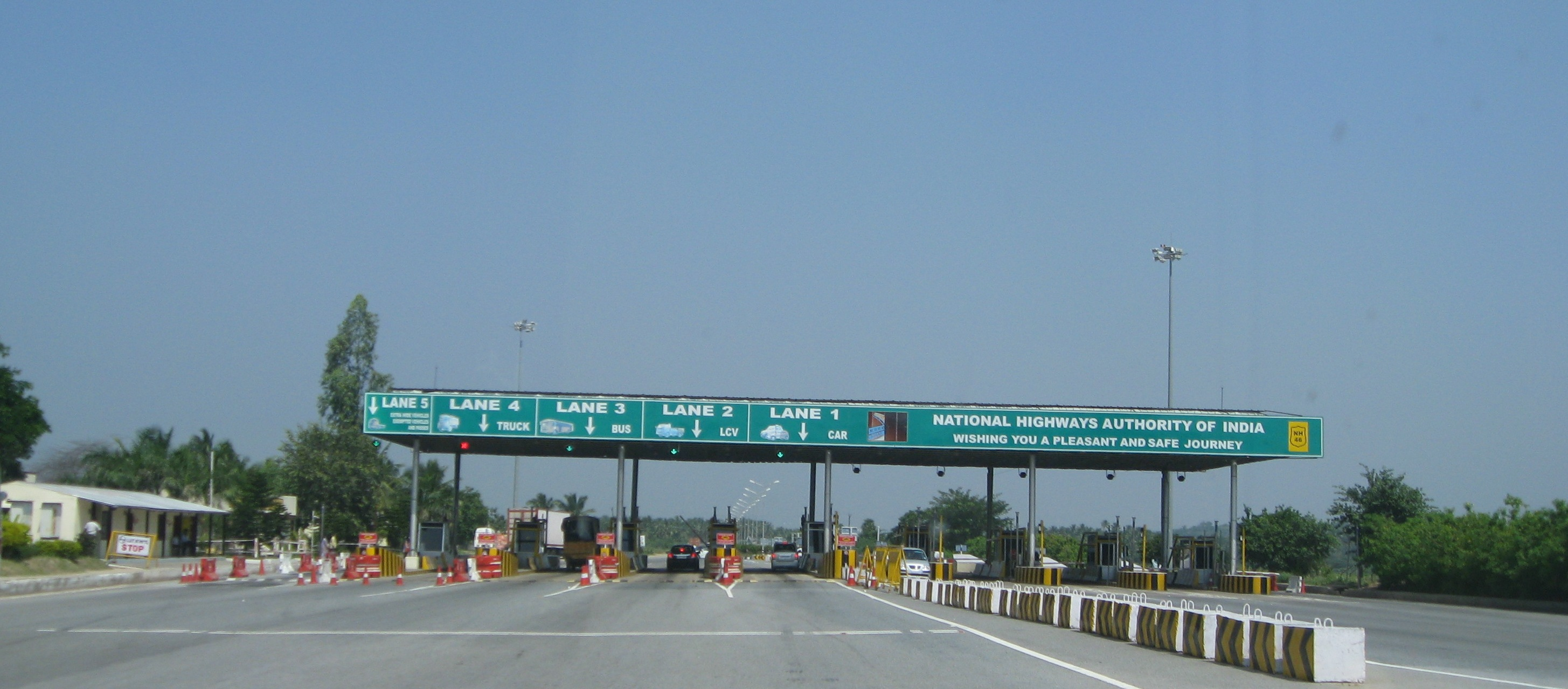 Vaiyambadi User Fee Booth.